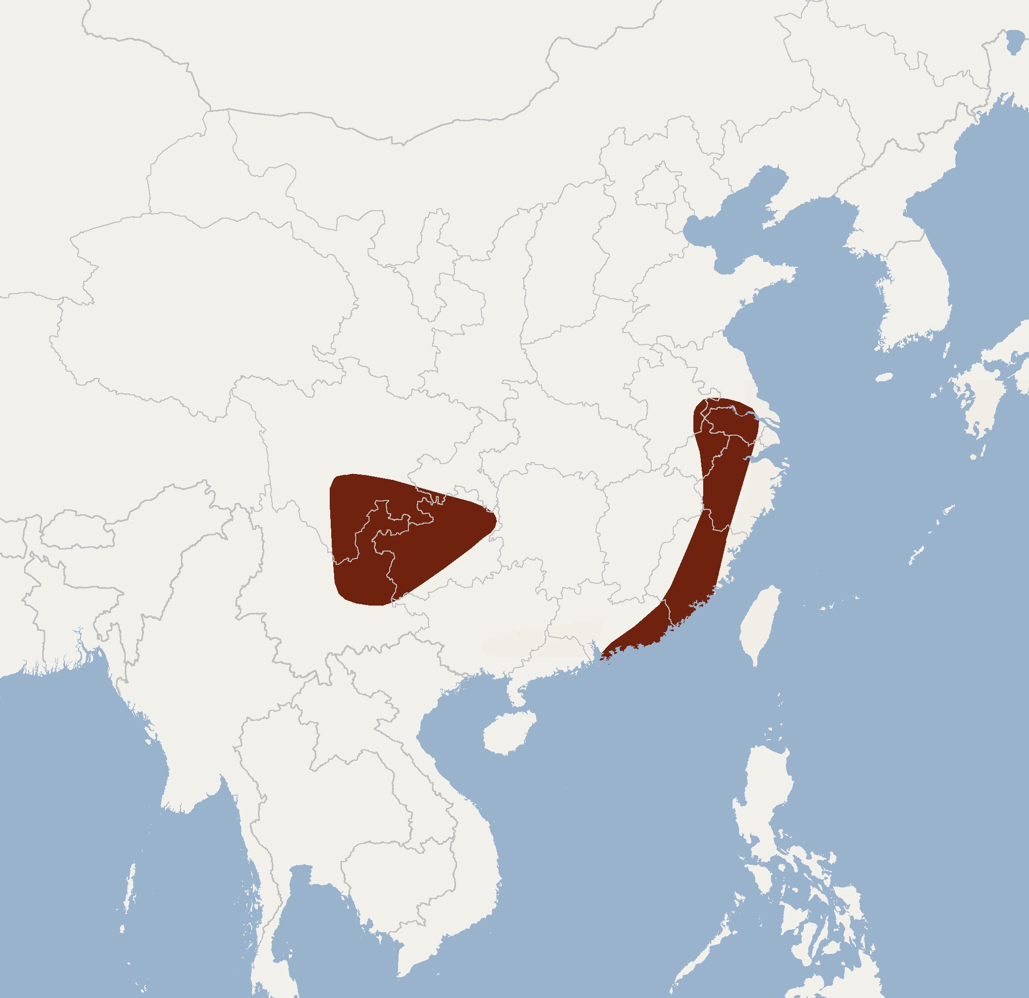 According to Smith & Xie, 2008